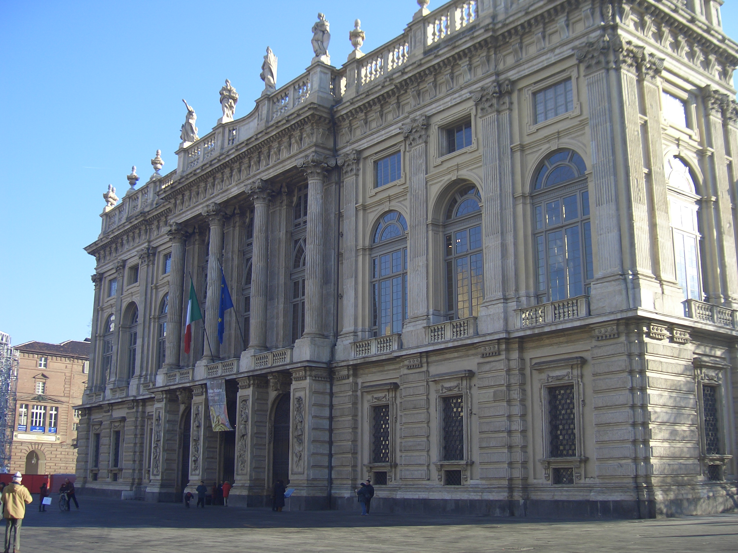 City of Turin - Piedmont - Italy